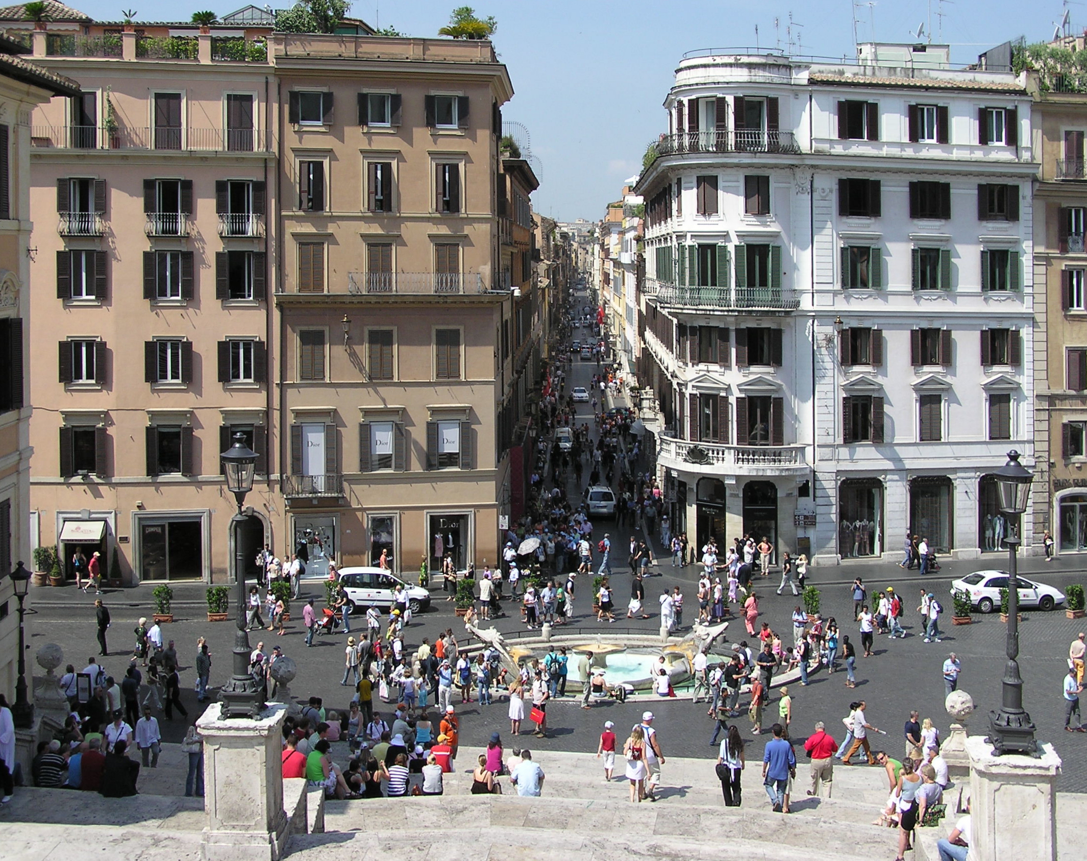 Fontana della Barcaccia seen from the top of the Spanish Steps, Rome, Italy. The narrow Via Condotti runs up the picture.